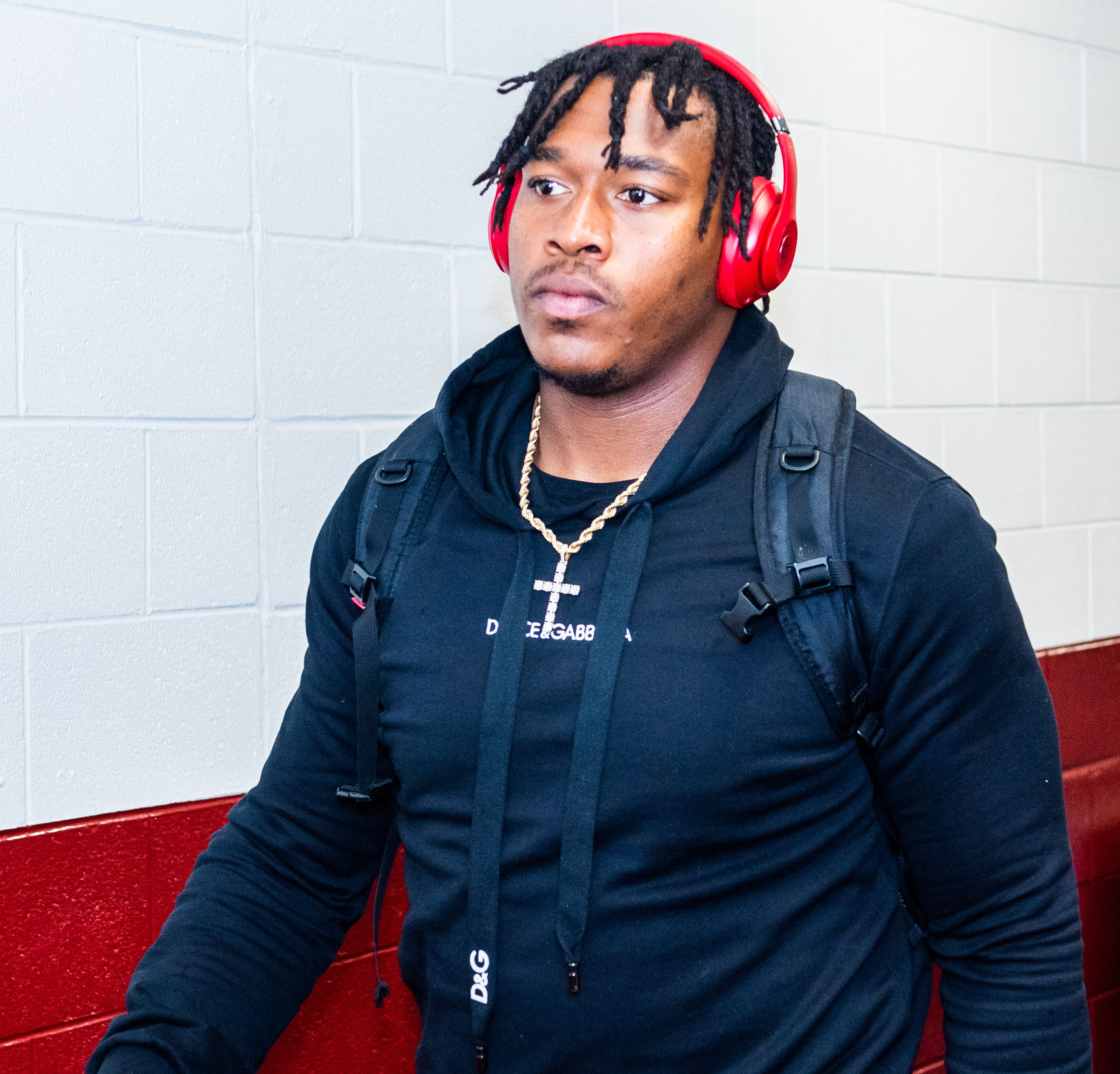 In 2019